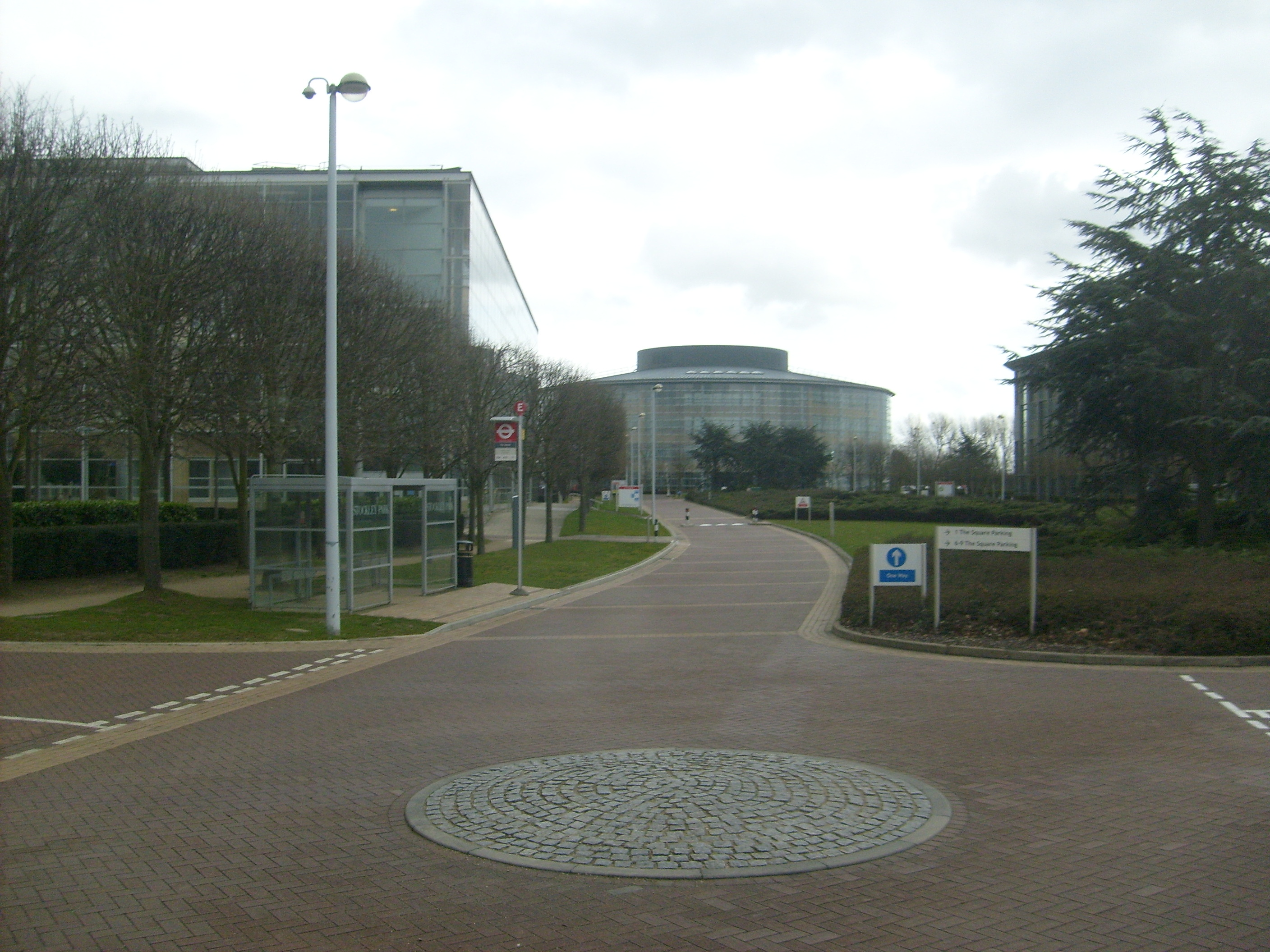 The centre of Stockley Park, in the parish of Harlington (London Borough of Hillingdon).